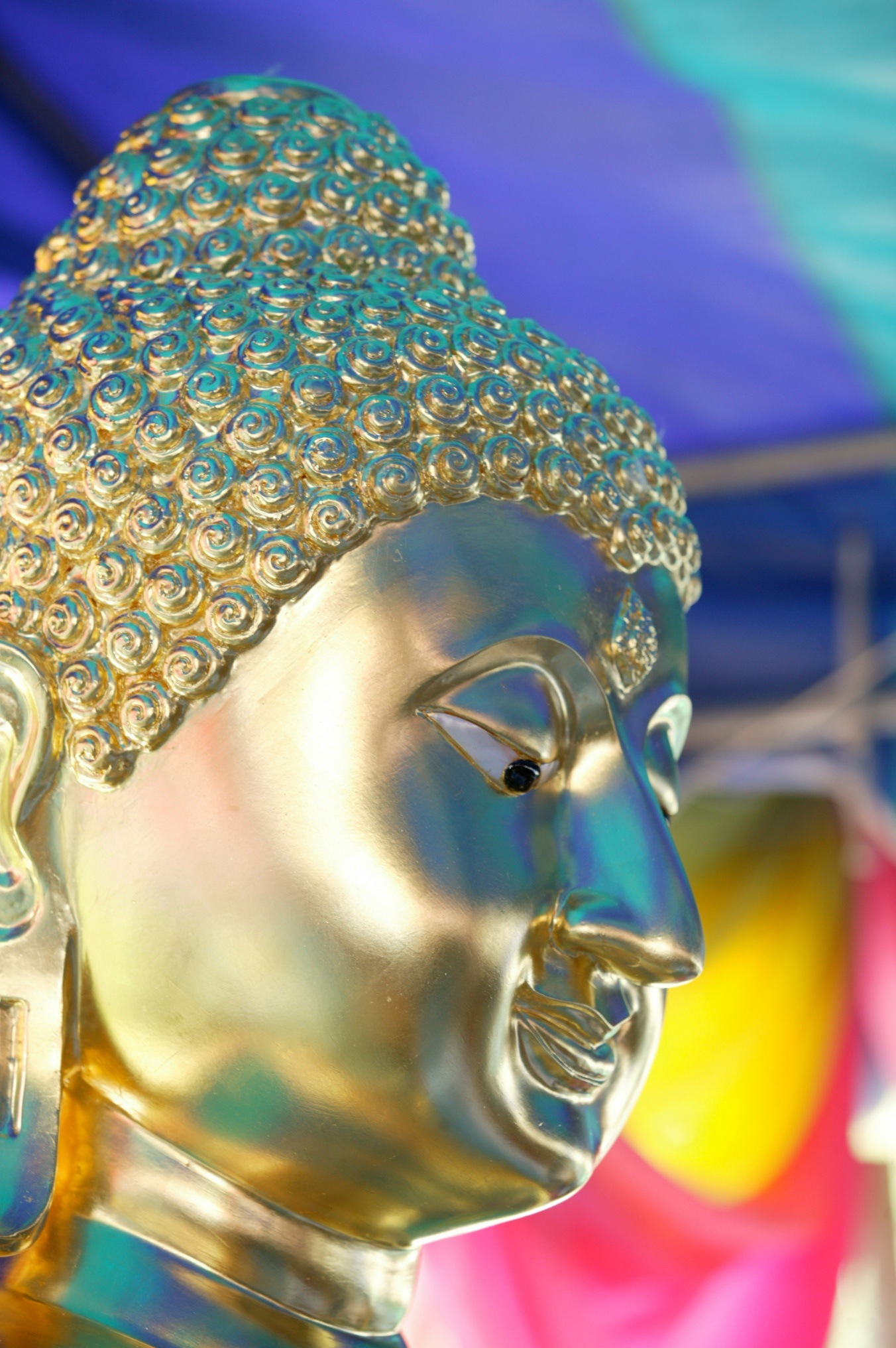 พระพุทธรูปสำคัญของวัดปากอ่าว